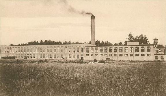 Monadnock Paper Mill, Bennington, NH; from a c. 1910 postcard.